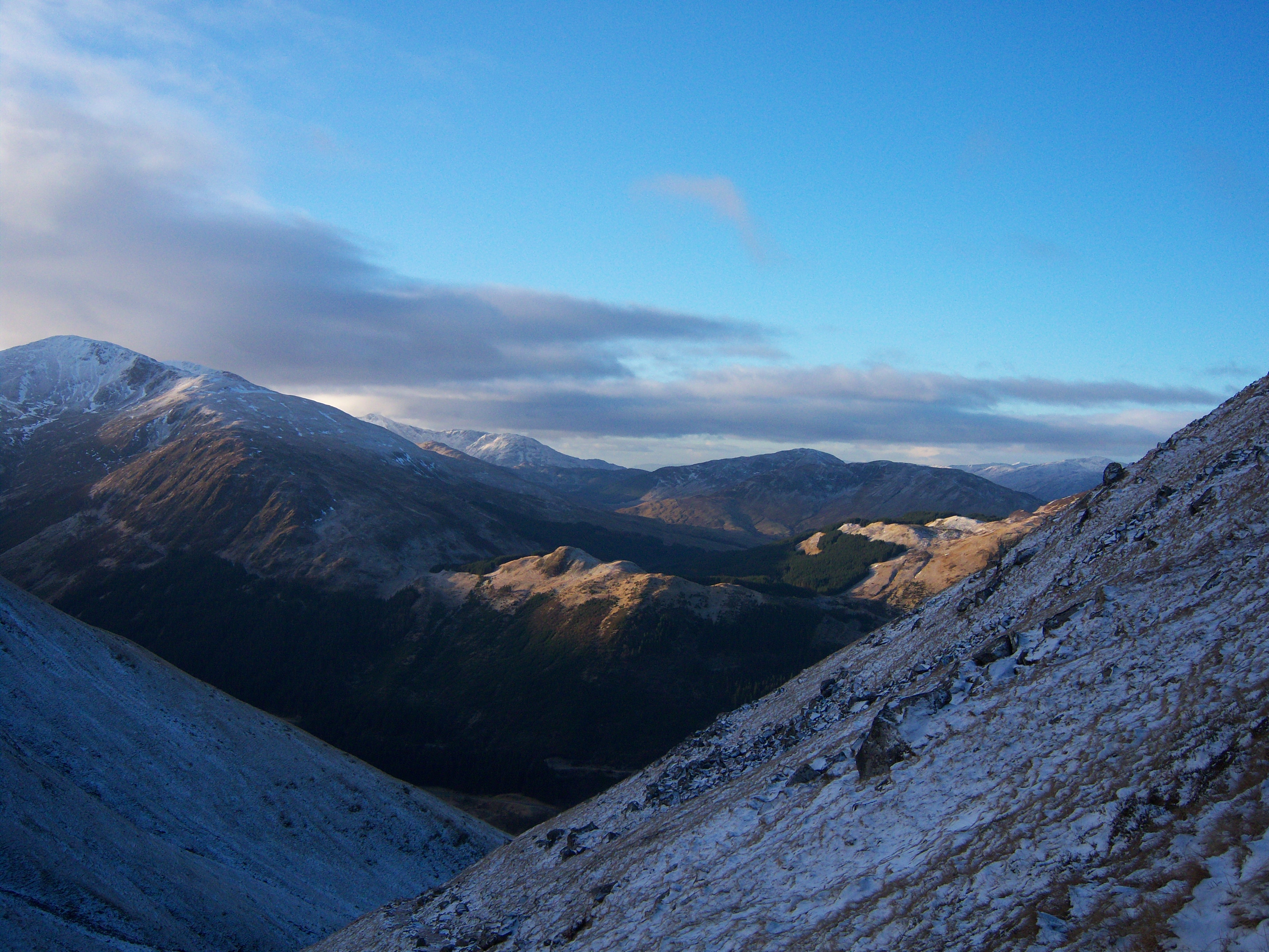 View from near the 'Halfway Lochan'.